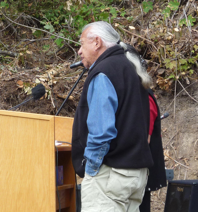 Bill Frank of the Nisqually Indian Tribe of the Nisqually Reservation, speaking at the Elwha Dam removal ceremony.